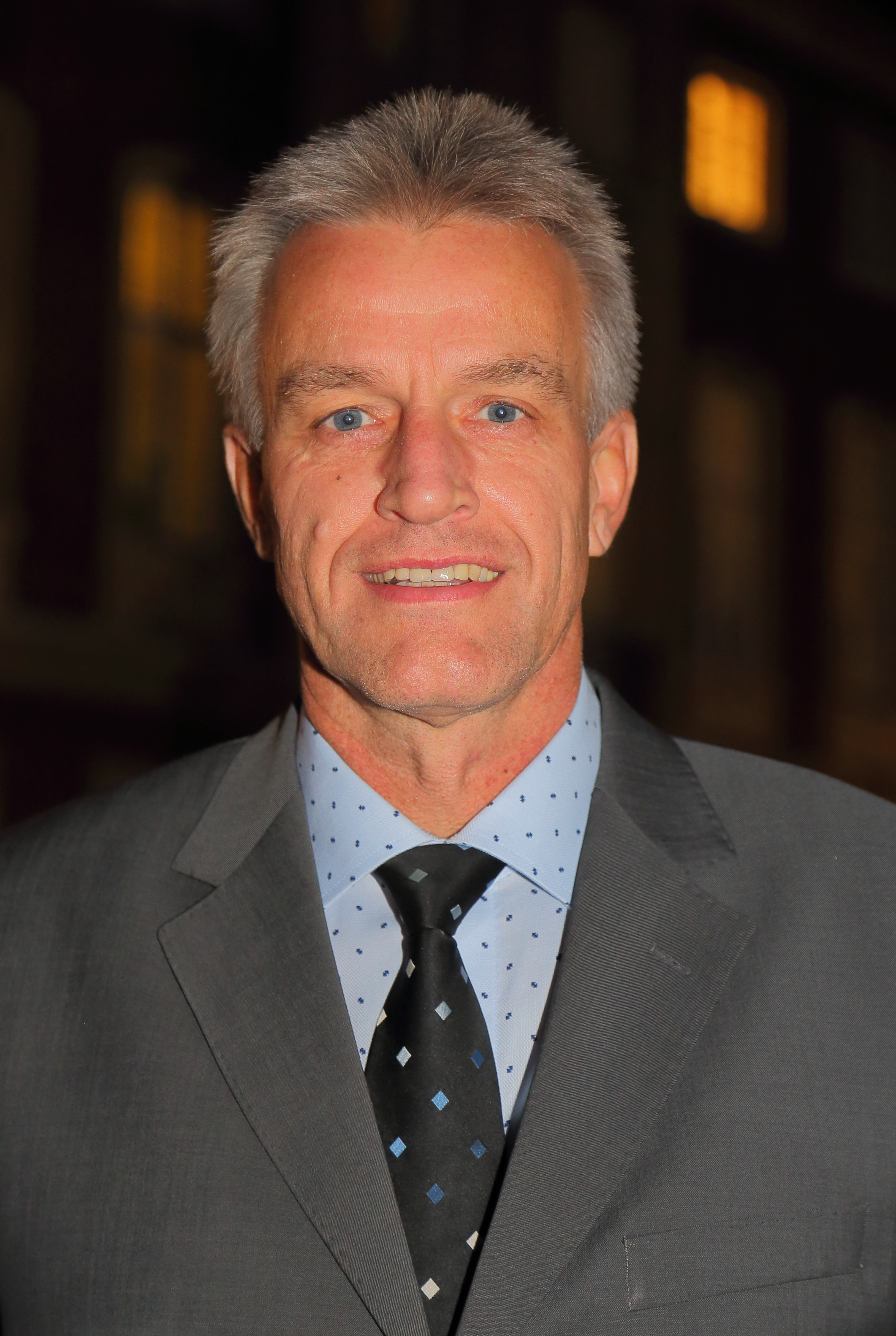 German journalist Norbert Robers. He serves as the spokesman of the University of Münster (Westfälische Wilhelms-Universität Münster) in Münster, North Rhine-Westphalia, Germany.